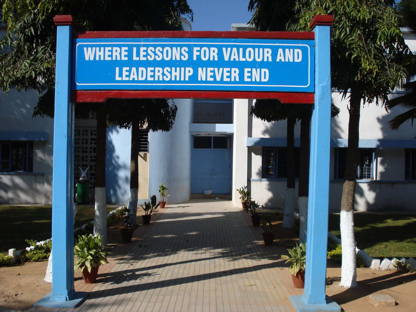 BANGALORE MILITARY SCHOOL ACADEMIC BLOCK ENTRANCE